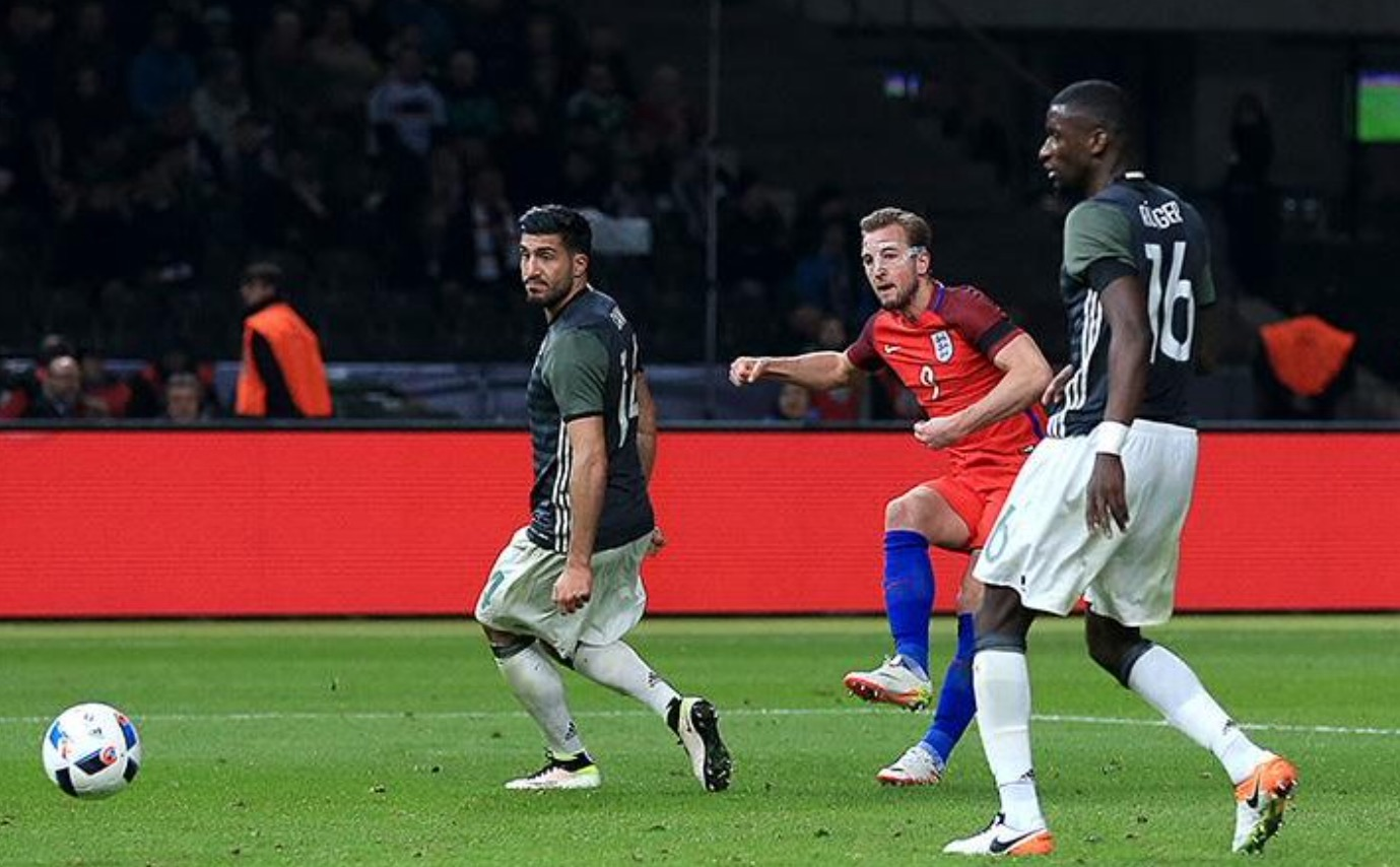 Harry Kane battles it out with the Germans